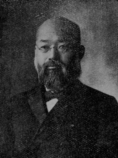 Mr. Seichō Kawada, director of the Tokyo Prefectural First Middle School.